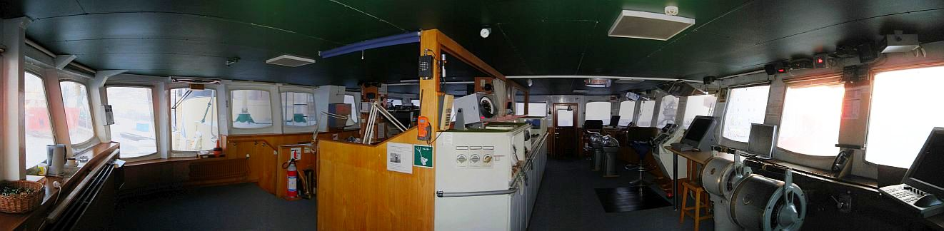 Bridge of Russian icebreaker Dudinka